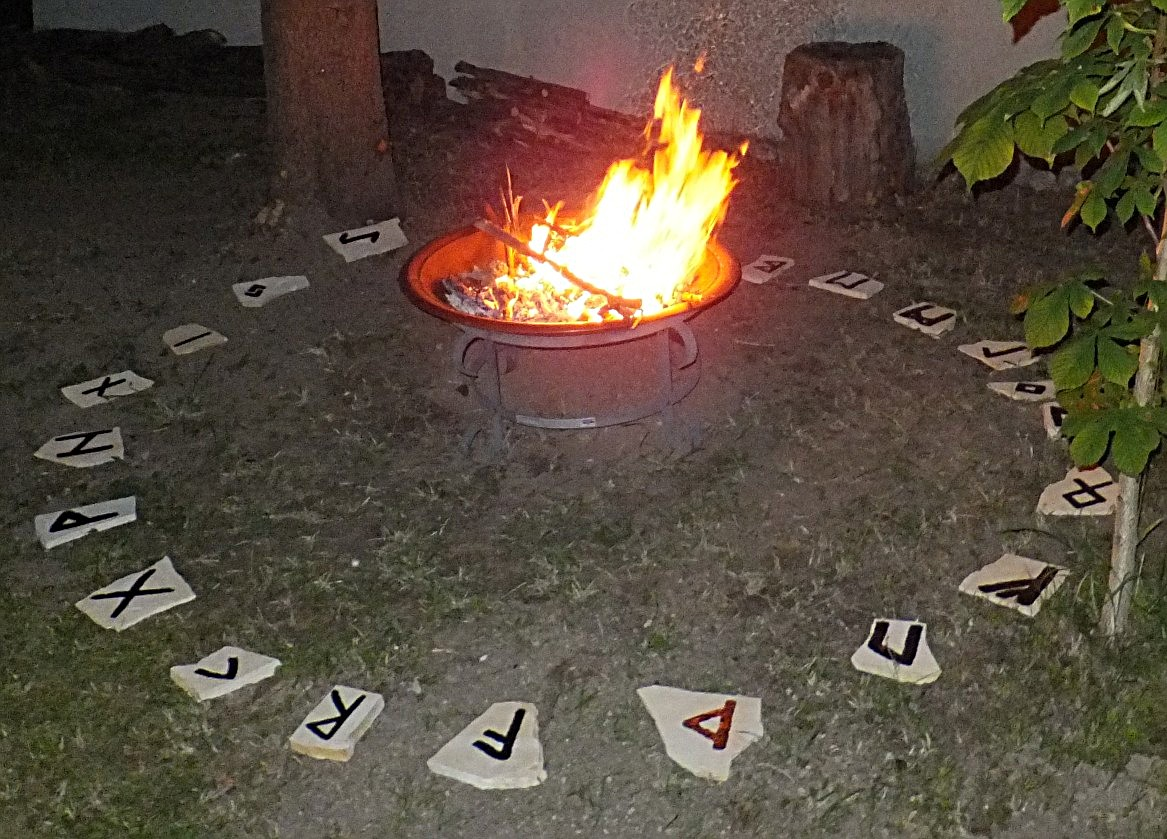 Rune stone circle in Straubing, Bavaria. The runes of the Elder Futhark are painted on Solnhofen limestones. The picture was taken at the summer solstice in June 2014.